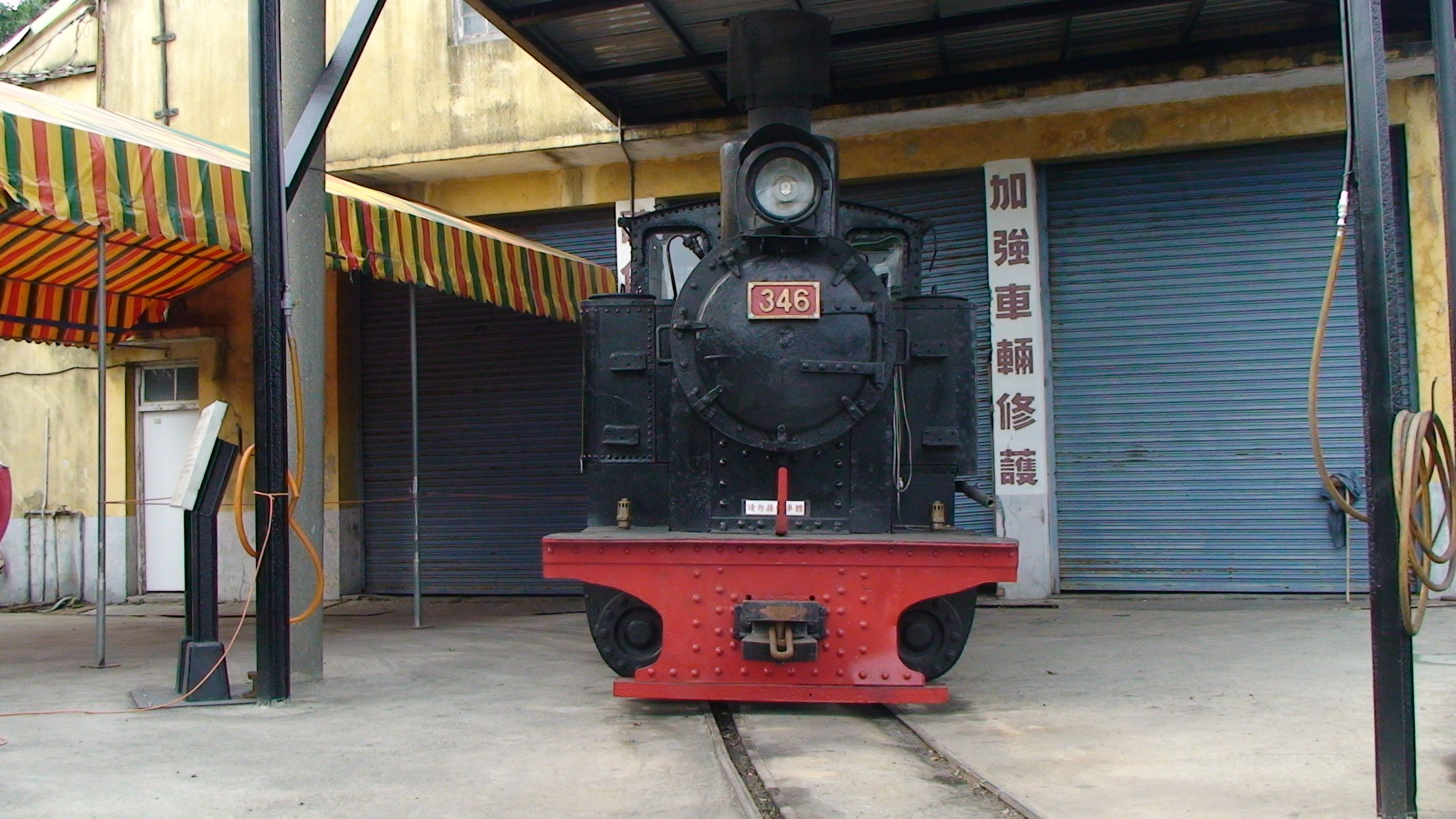 Sihu Sugar Refiney Steam Locomotive No.346